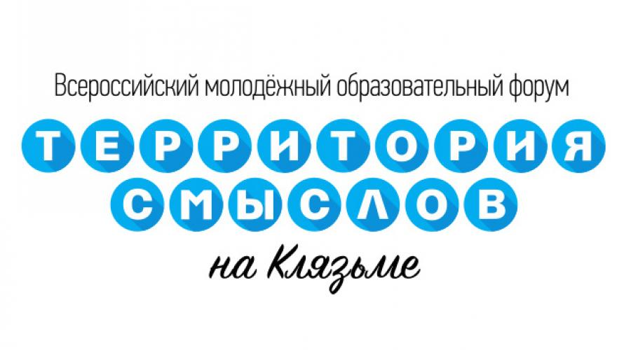 Russian Youth Education Camp LAND SENSES